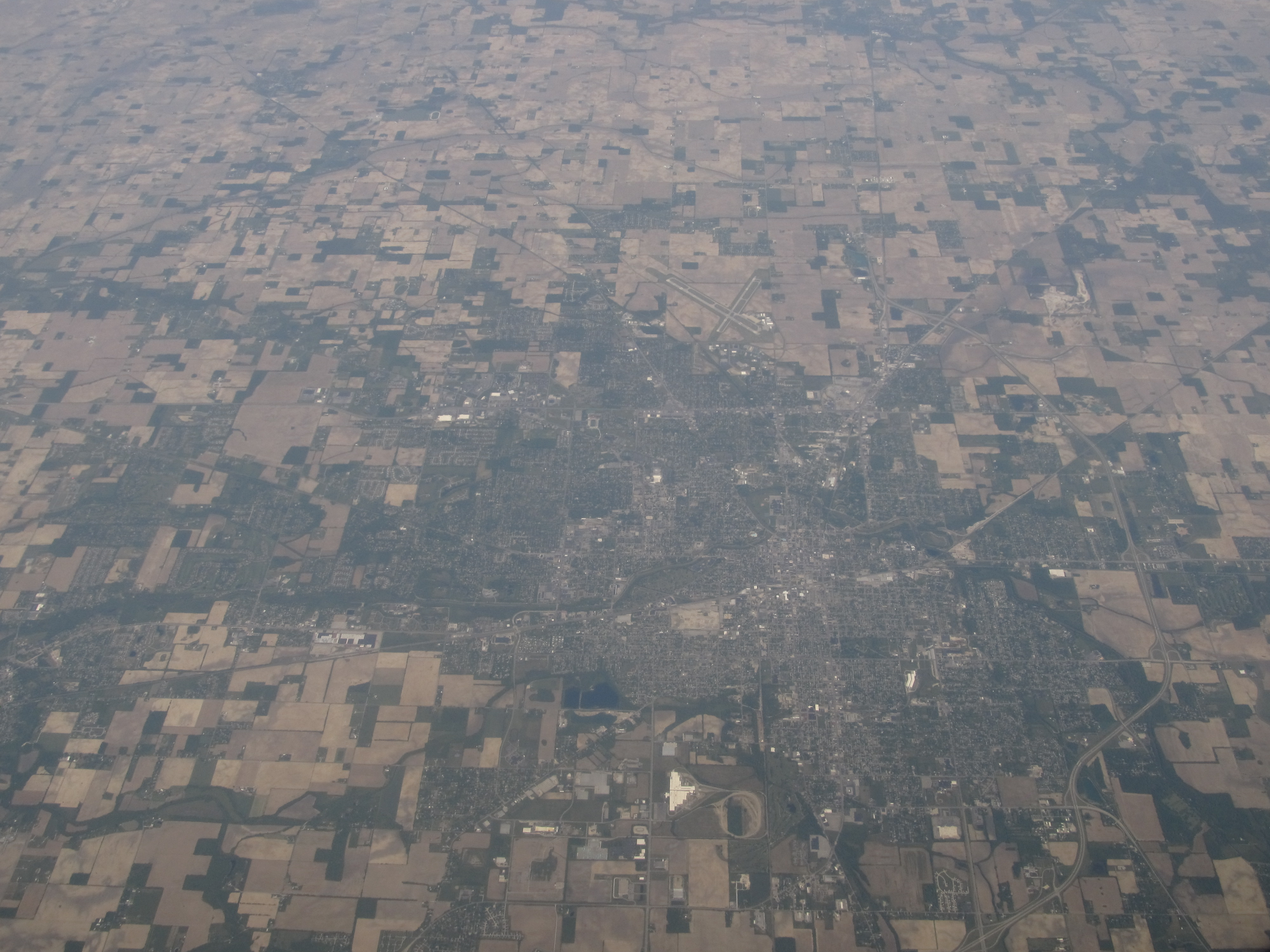 Muncie is a city in Center Township, Delaware County in east central Indiana, best known as the home of Ball State University and the birthplace of the Ball Corporation. It is the principal city of the Muncie, Indiana, Metropolitan Statistical Area, which has a population of 118,769. The city population, as of the 2010 Census, is 70,085. The area was first settled in the 1770s by the Delaware Indians, who had been transported from their tribal lands near the east coast to Ohio and eastern Indiana. Like many mid-sized cities in the Rust Belt, Muncie has had to economically reinvent itself due to the collective fall of the manufacturing industry in the latter part of the 20th century. Muncie’s current economic backbone is in health care, education, retail, and other service industries. The largest employers in Muncie are Ball Memorial Hospital (an Indiana University Health partner), Ball State University, Muncie Community Schools, The city of Muncie, Sallie Mae, Wal-mart, and The Youth Opportunity Center.